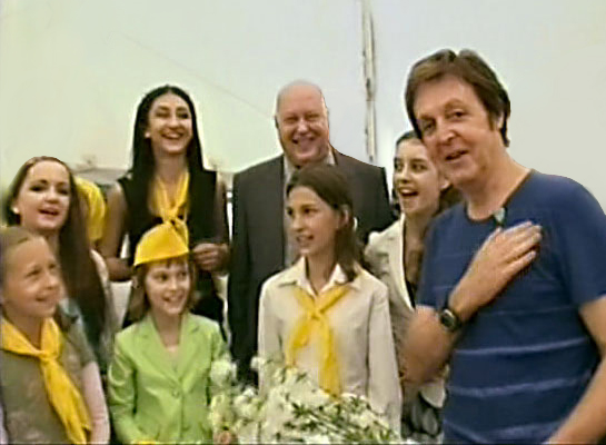 Photo of Sir Paul McCartney at JazzSchool in Kiev